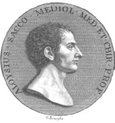 Lithography, Portrait of Luigi Sacco (1769-1836)